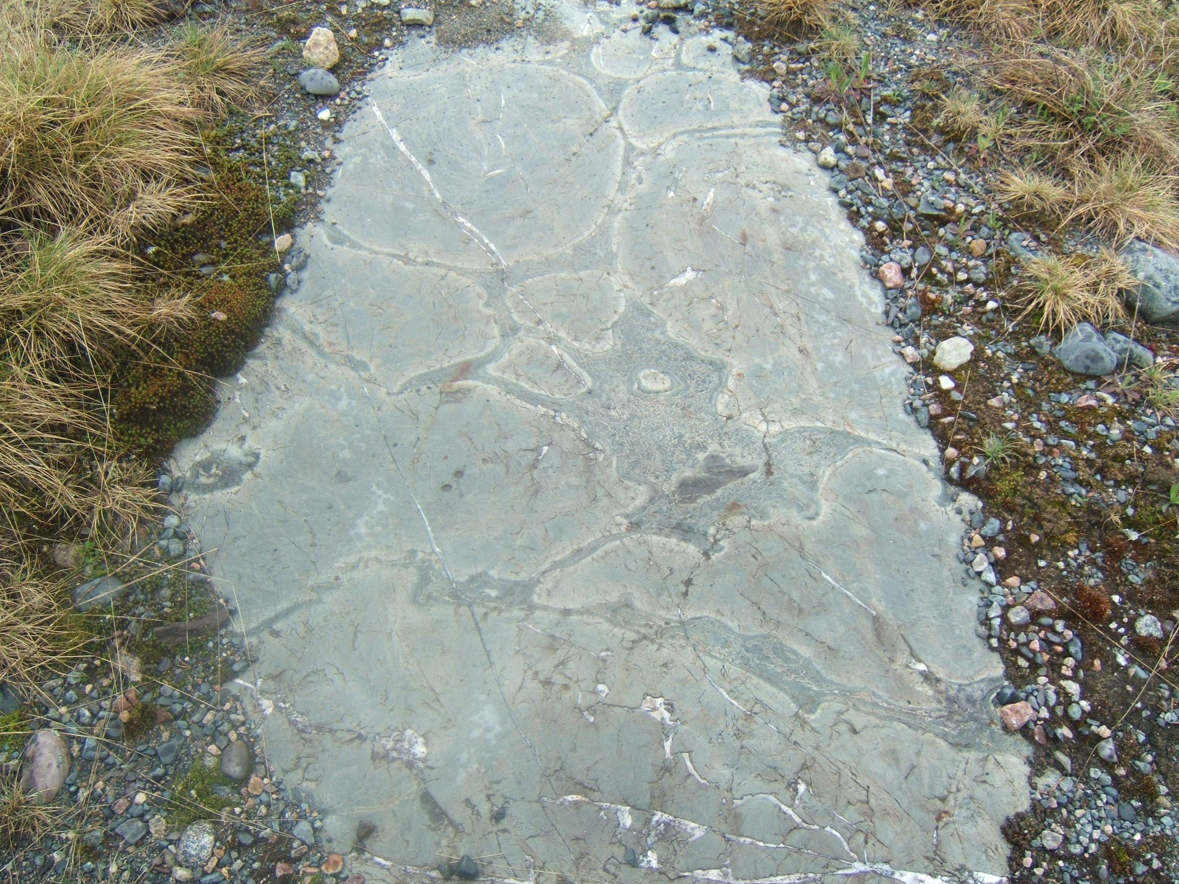 Weathered Precambrian pillow lava in the Temagami greenstone belt of the Canadian Shield in Eastern Canada.